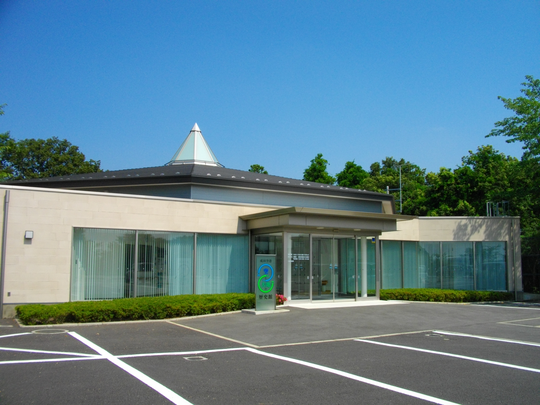 Narita Airport and Community Historical Museum